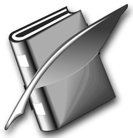 US Navy Personnelman Specialist(PN). Crossed manual and quill; manual upper most; pen nib down and to the front.